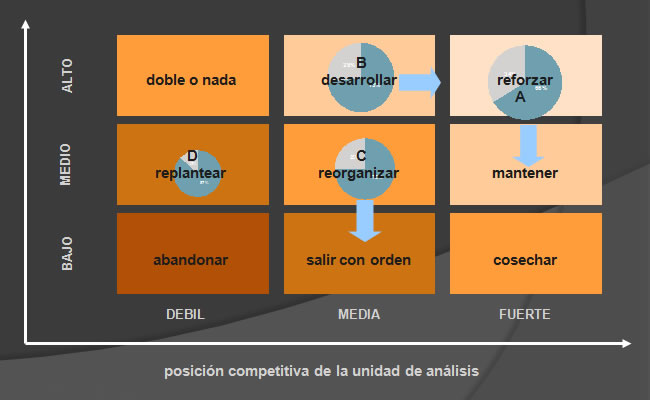 Oiginal '70s McKinsey Matrix